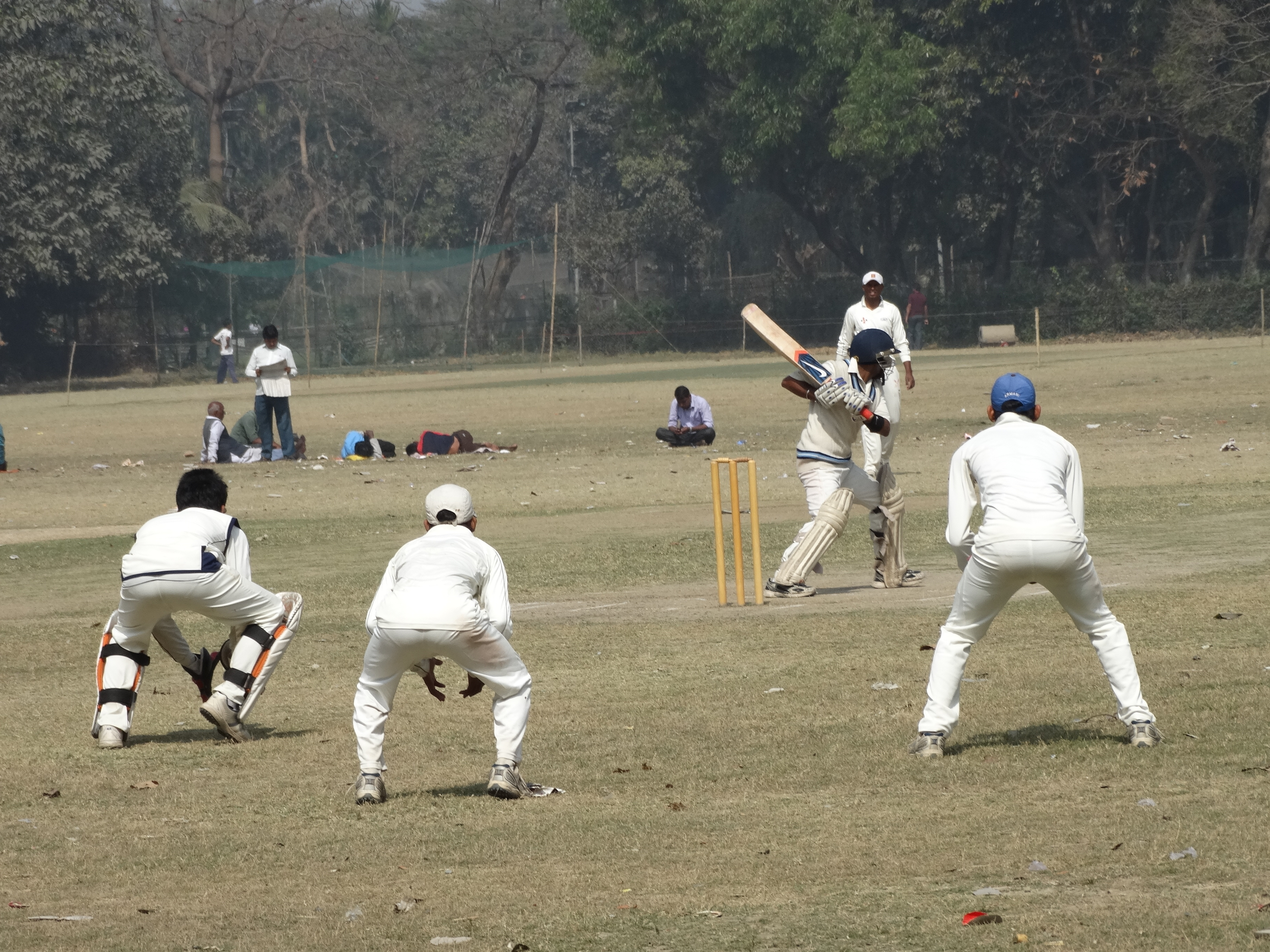 Cricket on the Maidan - Kolkata - India